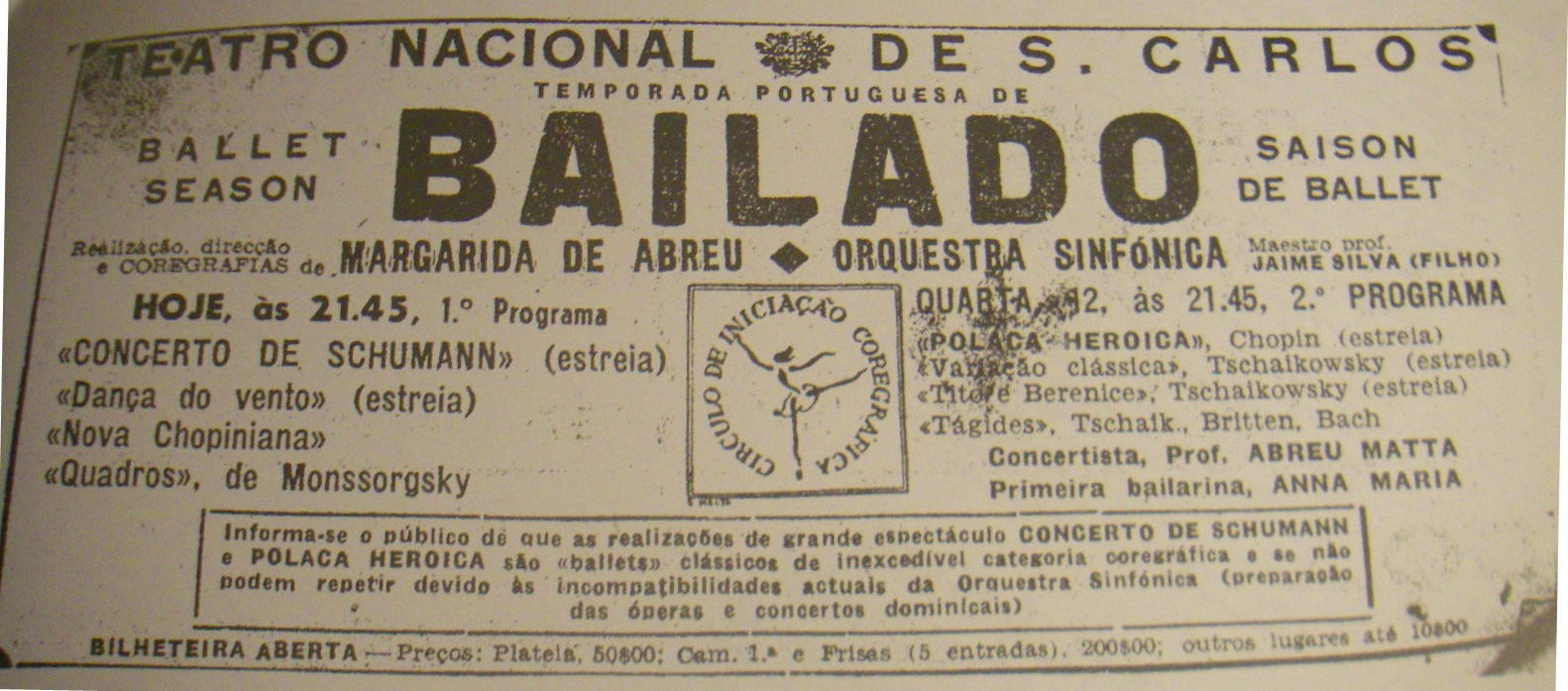 Facsimile edition of a 1949 CIC Ballet performance ticket at TNSC, Lisbon.